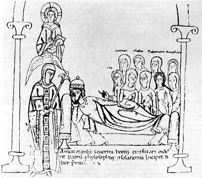 Boethius being consoled by Philosophy. Miniature from «Consolation of Philosophy». XIIth century. (National Library, Vienna)